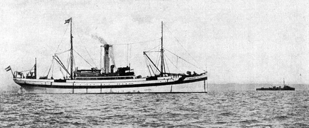 SS Ophelia equipped as a German hospital ship